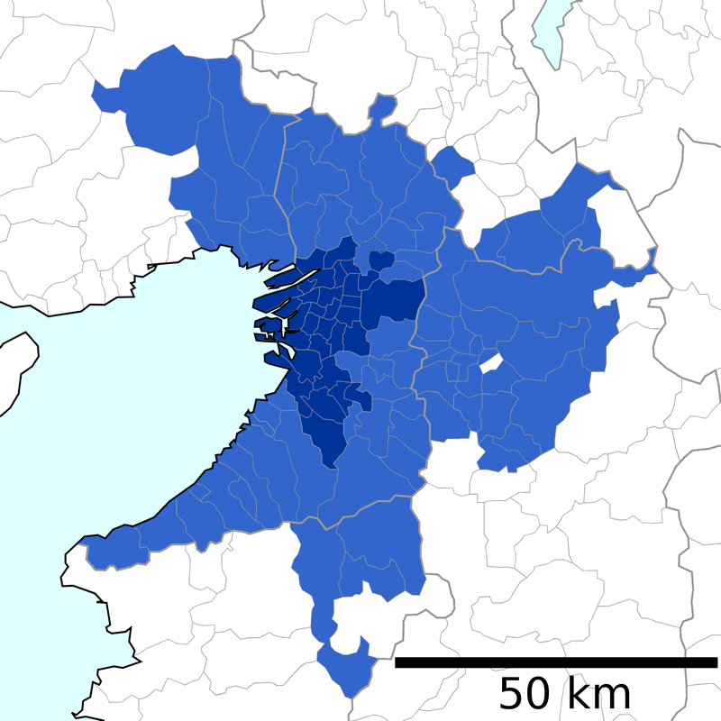 Urban Employment Area of Osaka in 2015